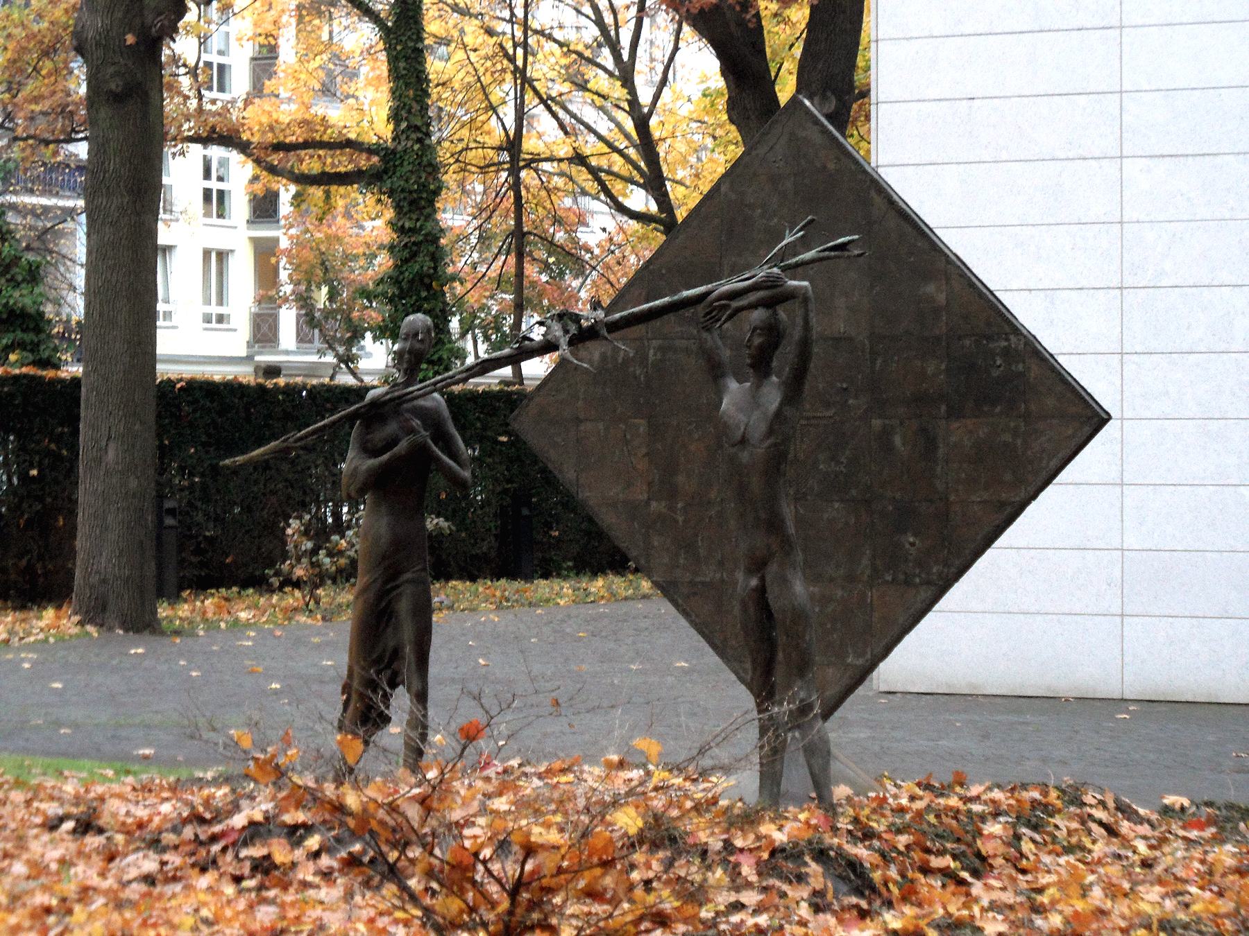 Bronze Group Of Cecco Bonanotte outside Berlin Apostolic Nunciature